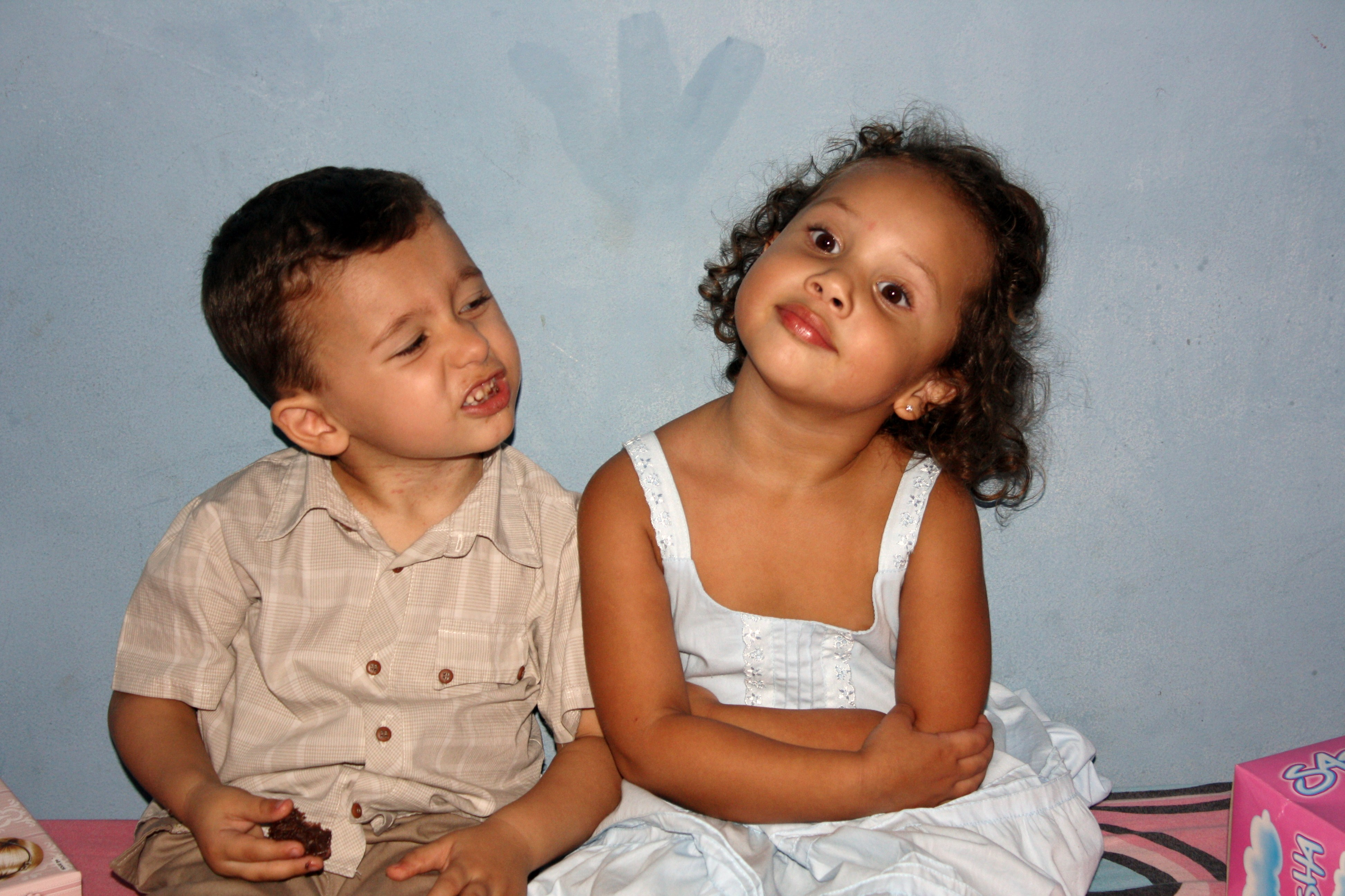 A boy and girl sitting beside each other.